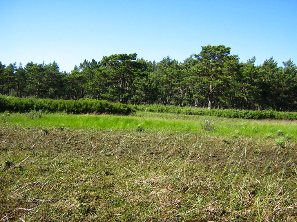 Nature Reserve Białogóra. Poland.